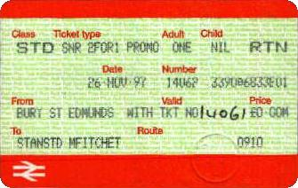 An APTIS travel ticket for a Senior Railcard promotion in 1997. Scanned from my own collection. Summary An APTIS travel ticket for a Senior Railcard promotion in 1997. Scanned from my own collection.